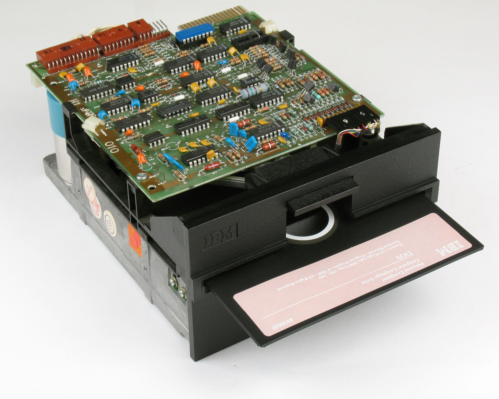 IBM PC 5 1/4 inch Diskette Drive shown with a DOS 1.1 diskette. This drive was used with the original IBM PC, Model 5150. This drive was an OEM version of the Tandon TM100-2A (171172-001). It was double sided with 40 tracks. The date tag is Dec 13 1983. There is an IBM CORP. tag with B1437164. With IBM DOS 1.1, it would hold 327,680 bytes (320K). DOS 2.0 increased that to 360K bytes. The photo by Michael Holley, July 2007. Taken with a Canon PowerShot A630 (1/10 second and f/8) under tungsten lighting. The image was touched up with Adobe Photoshop Elements 3.0.